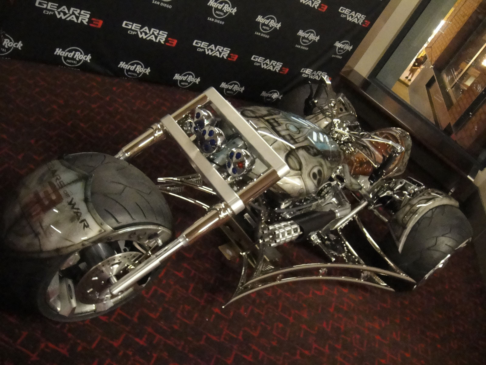 San Diego Comic-Con 2011 - Gears of War 3 bike at the Xbox 360 party